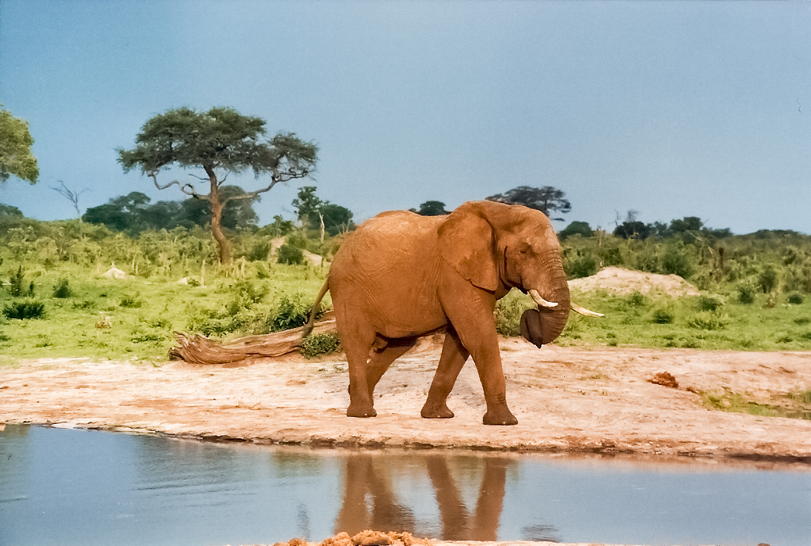 Is he carrying water in his trunk? Or is it just comfortable like that? Male elephant at water hole in Hwange National Park, Zimbabwe. Taken Dec 1999 on film.